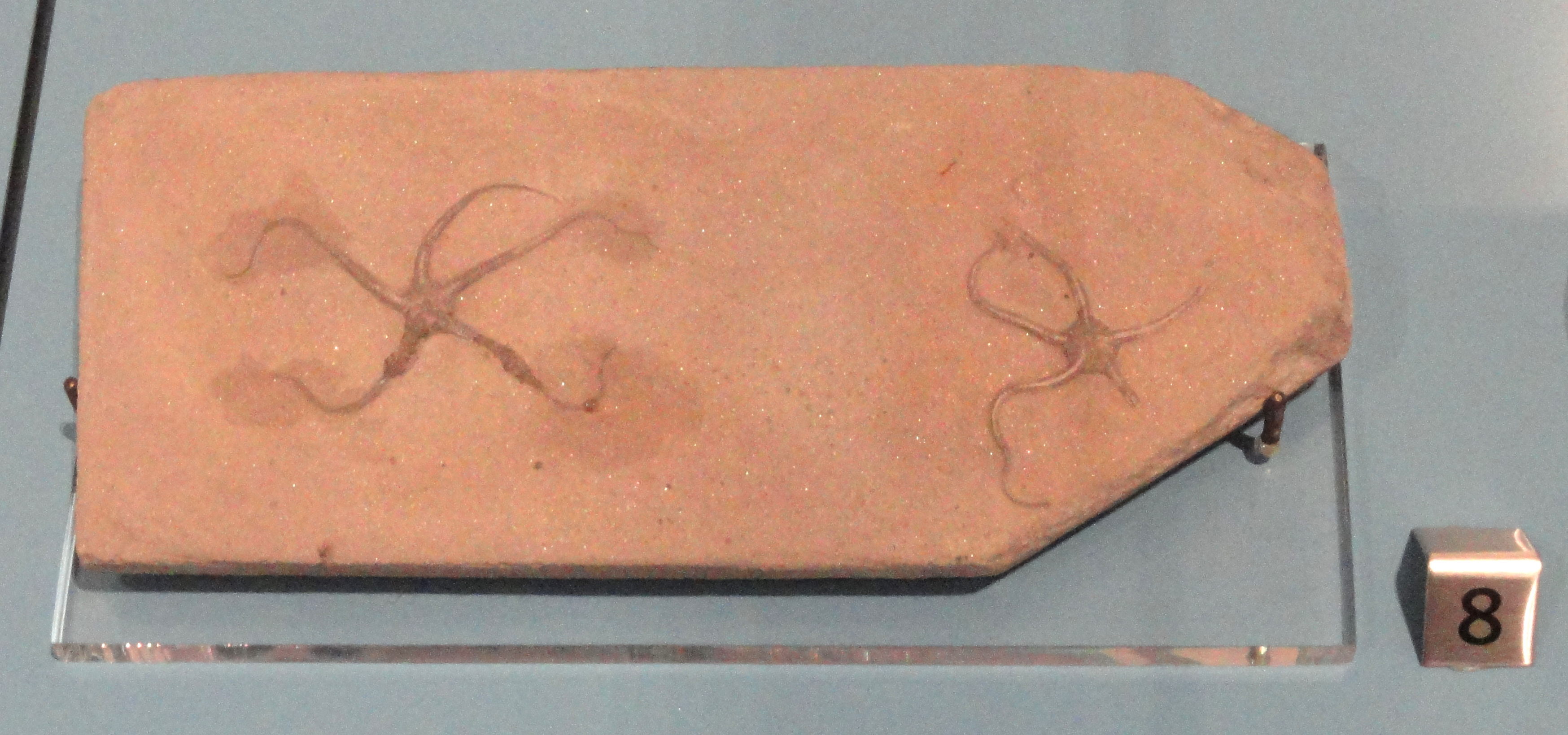 Exhibit in the Royal Ontario Museum, Toronto, Ontario, Canada. This exhibit is old enough so that it is in the public domain, and photography was permitted in the museum. I took this photograph and release it into the public domain.